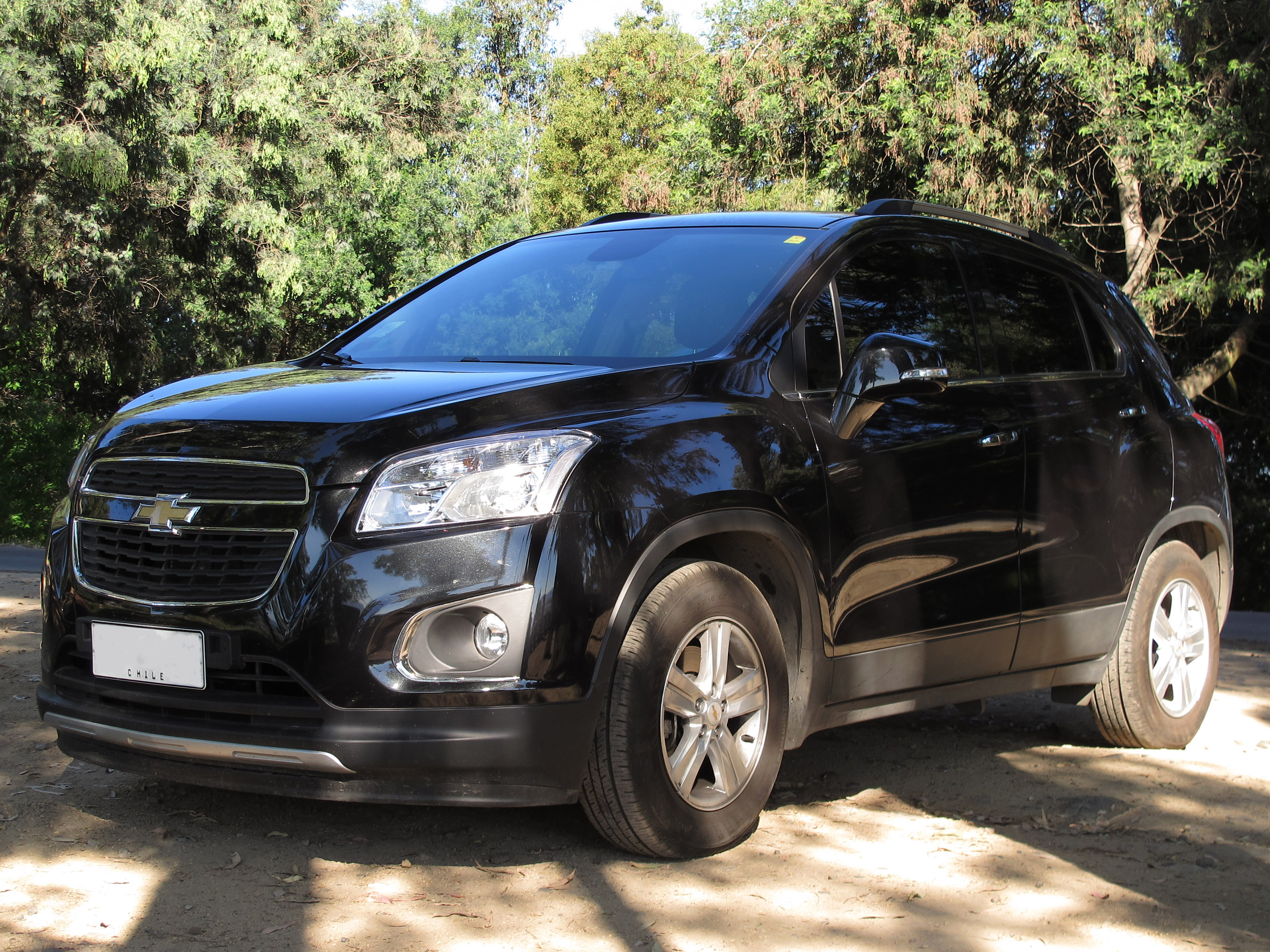 Chevrolet Tracker 1.8 LT 2015